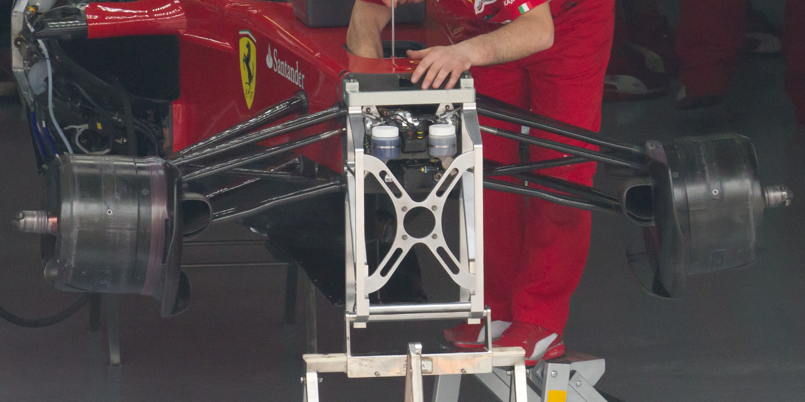 Formula One 2012 Rd.2 Malaysian GP: Ferrari F2012's "pull rod" front suspension